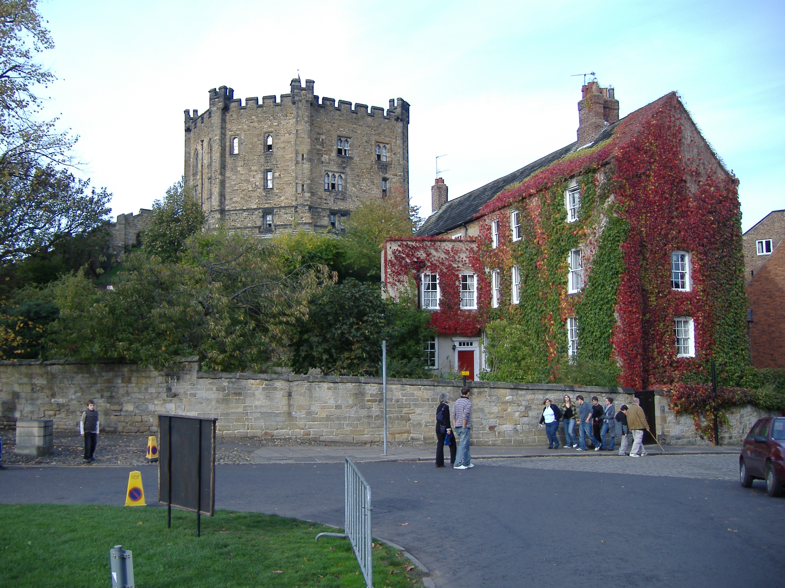 This photograph was taken by Chris Wood using a FujiFilm A350 digital camera at 3pm on 24th October 2006. The photo shows a view looking roughly North on Palace Green, Durham, UK. The keep of Durham Castle can be seen on the left; the house to its right is the Master's Lodge of University College, which occupies the castle.